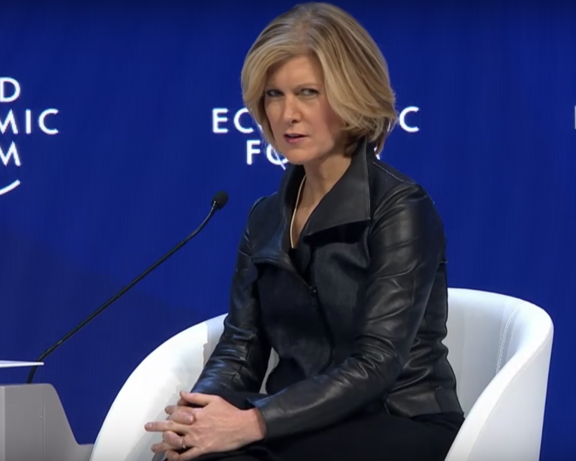 Mary Callahan Erdoes at World Economic Forum